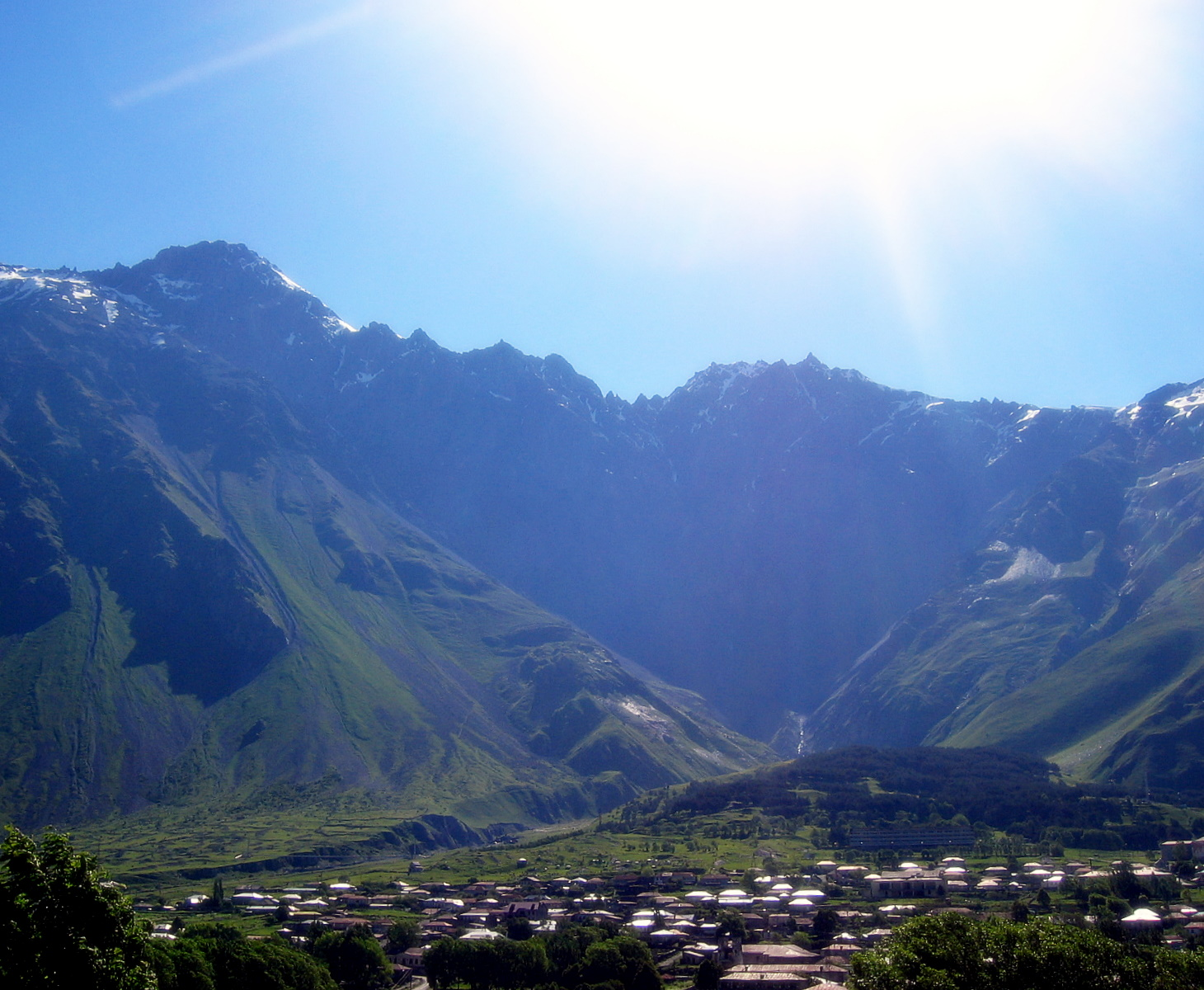 View over Kazbegi from Tsminda Samebis Church, Kazbegi.